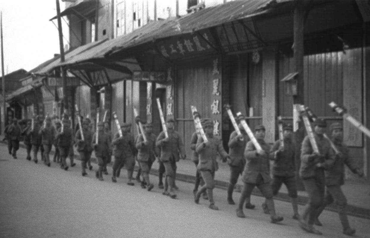 National Revolutionary Army soldiers in Gannan during the early 1940s. Chiang Ching-kuo was appointed as commissioner of Gannan Prefecture (贛南) between 1939 and 1945.